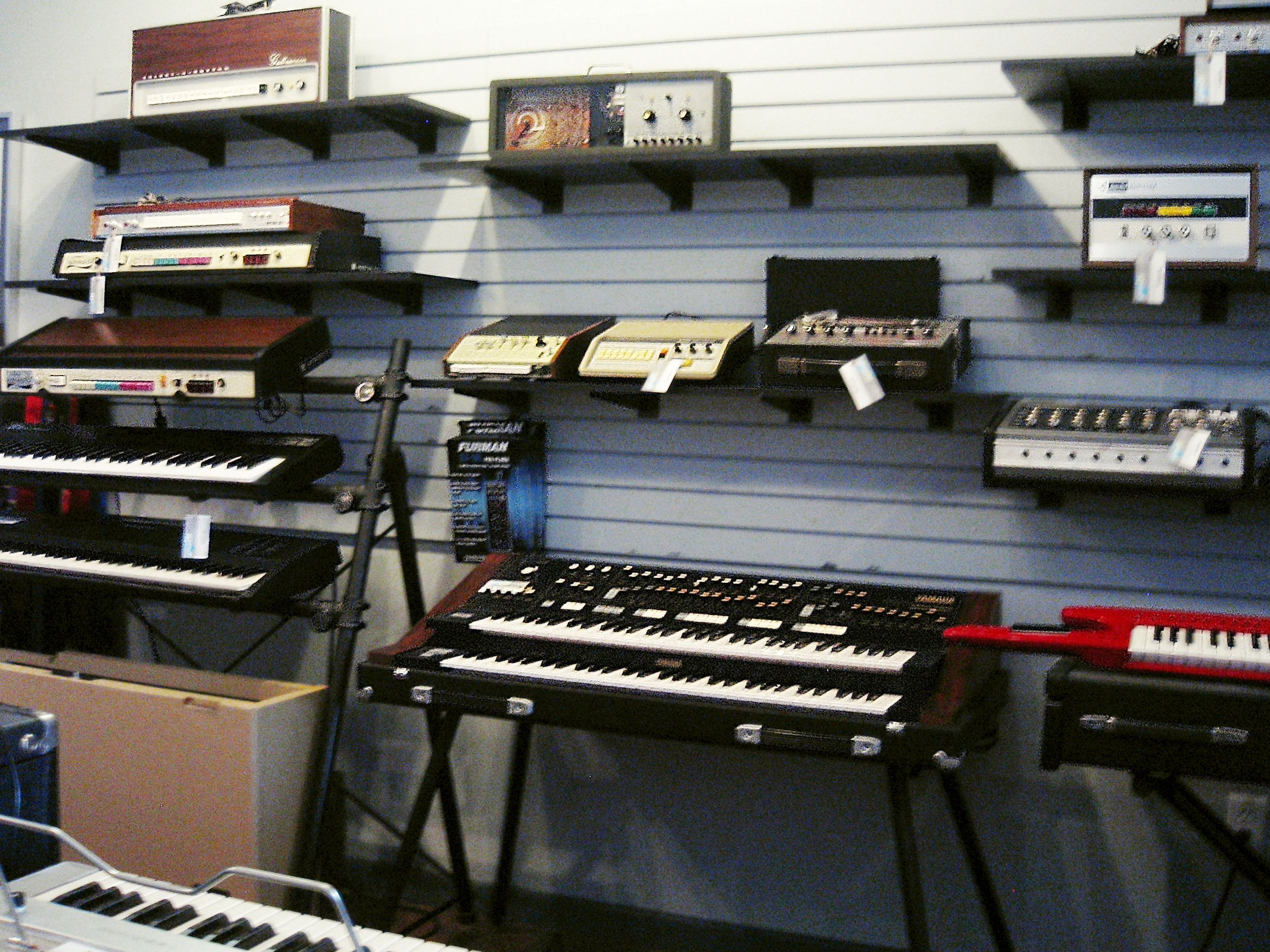 Store display of assorted music and rhythm synthesizers